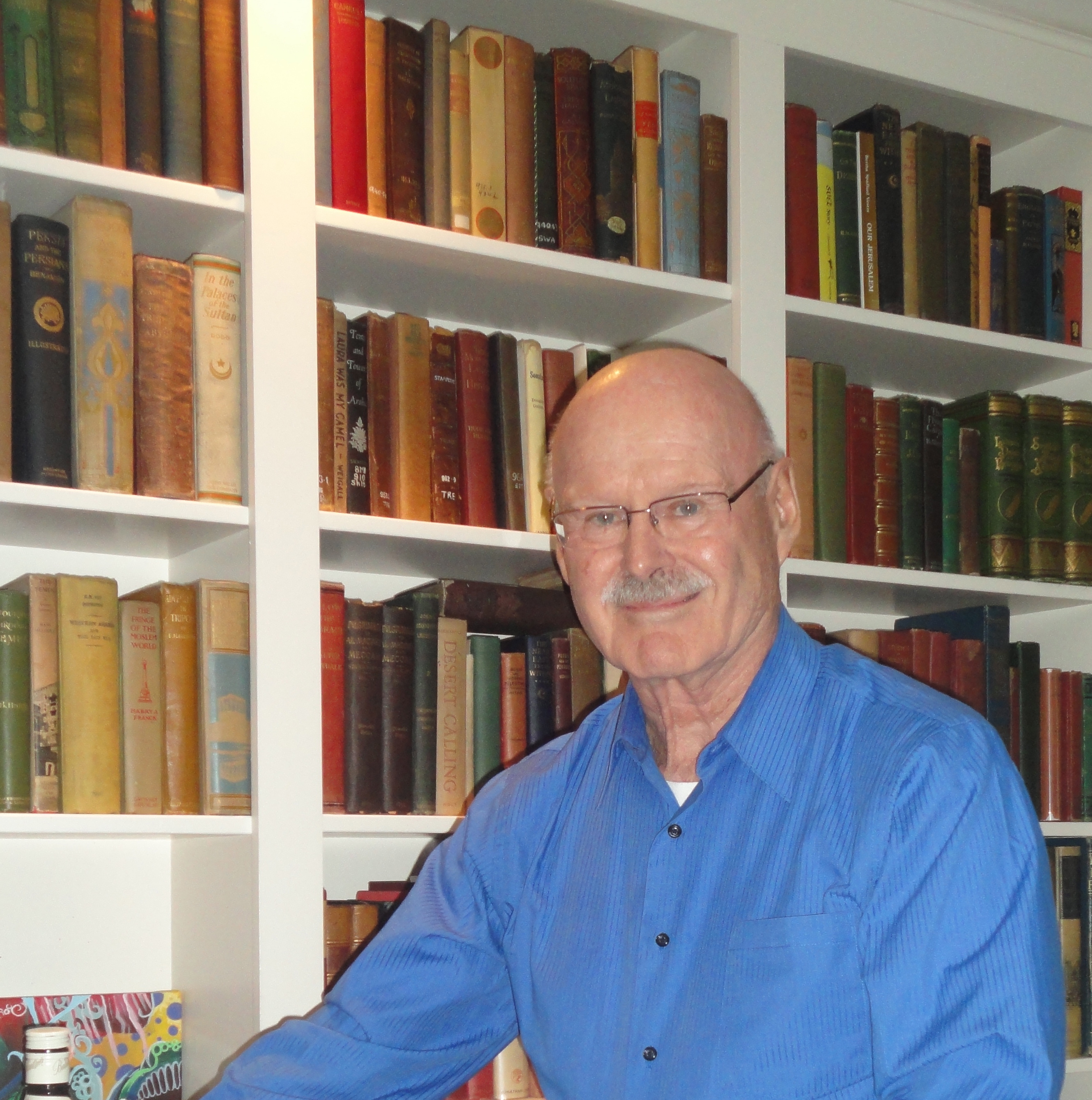 Dr. Michael C. Hudson in his library.